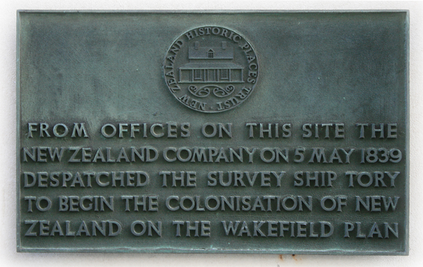 Plaque at 1–5 Adam Street, London - 'From Offices on this site the New Zealand Company on 5 May 1839 despatched the survey ship Tory to begin the colonisation of New Zealand on the Wakefield Plan.' by New Zealand Historic Palaces Trust ( ID=9378)